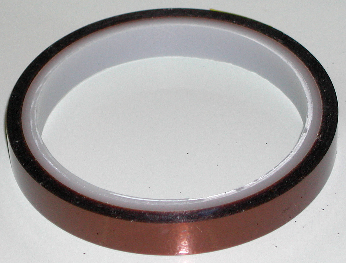 Capton tape.